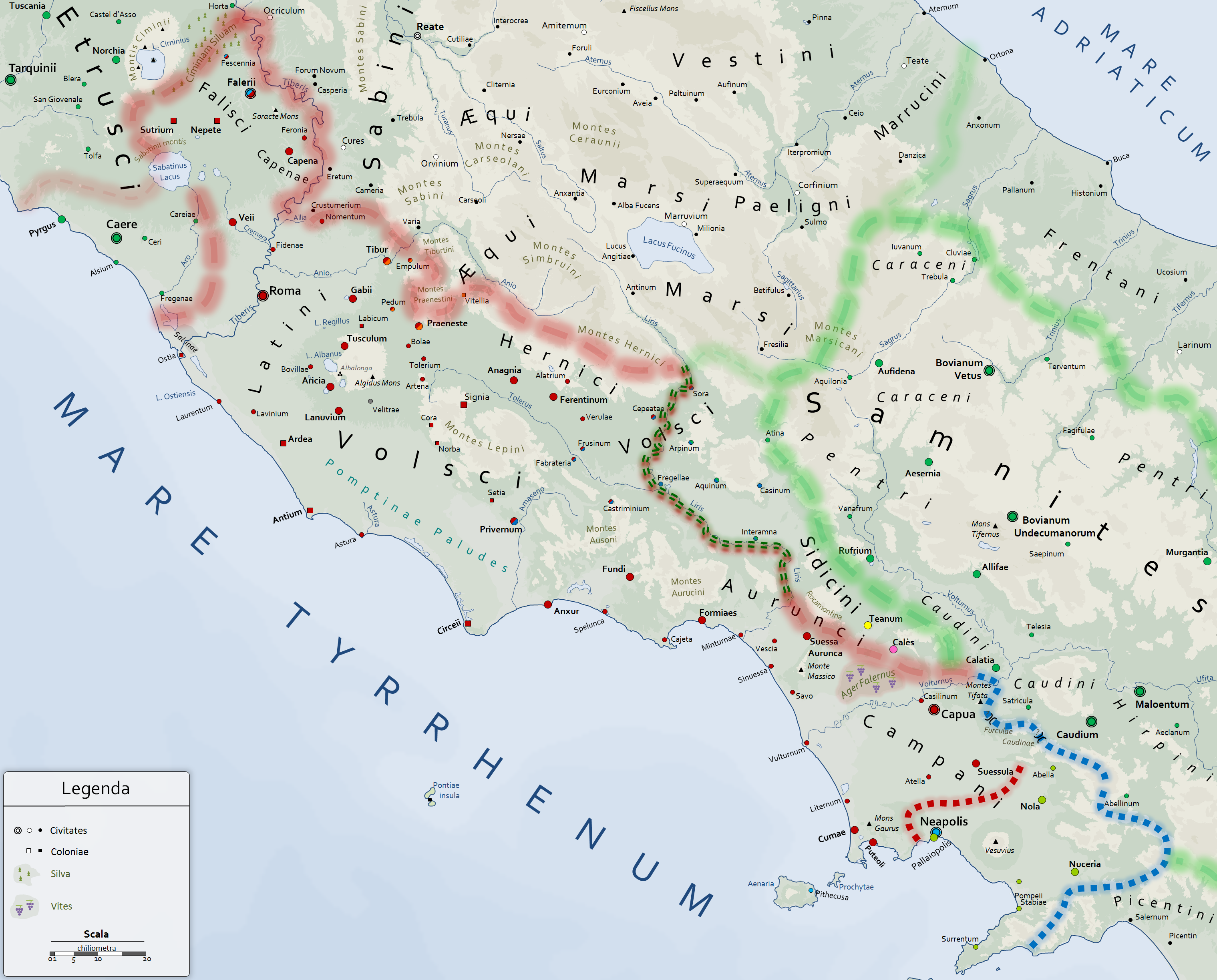 See Guerre latine#Les conséquences for the full legend/caption of the map.